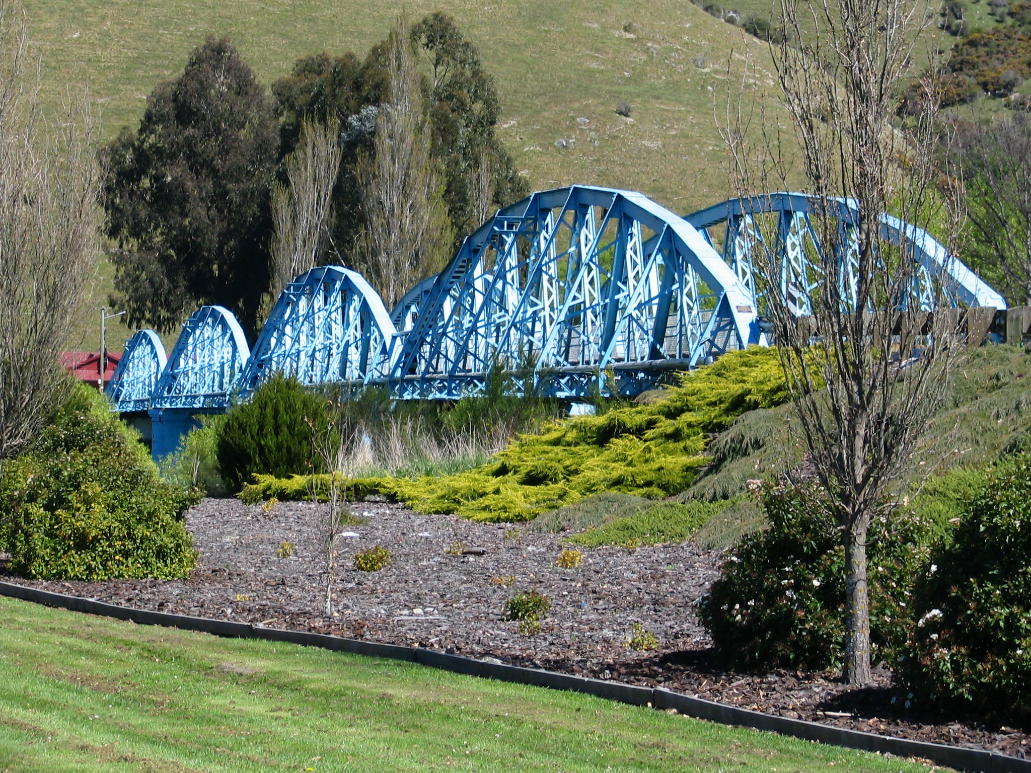 The four-span steel truss bridge over the Clutha River at Millers Flat, Otago, New Zealand. New Zealand Historic Places Trust Register number 5217